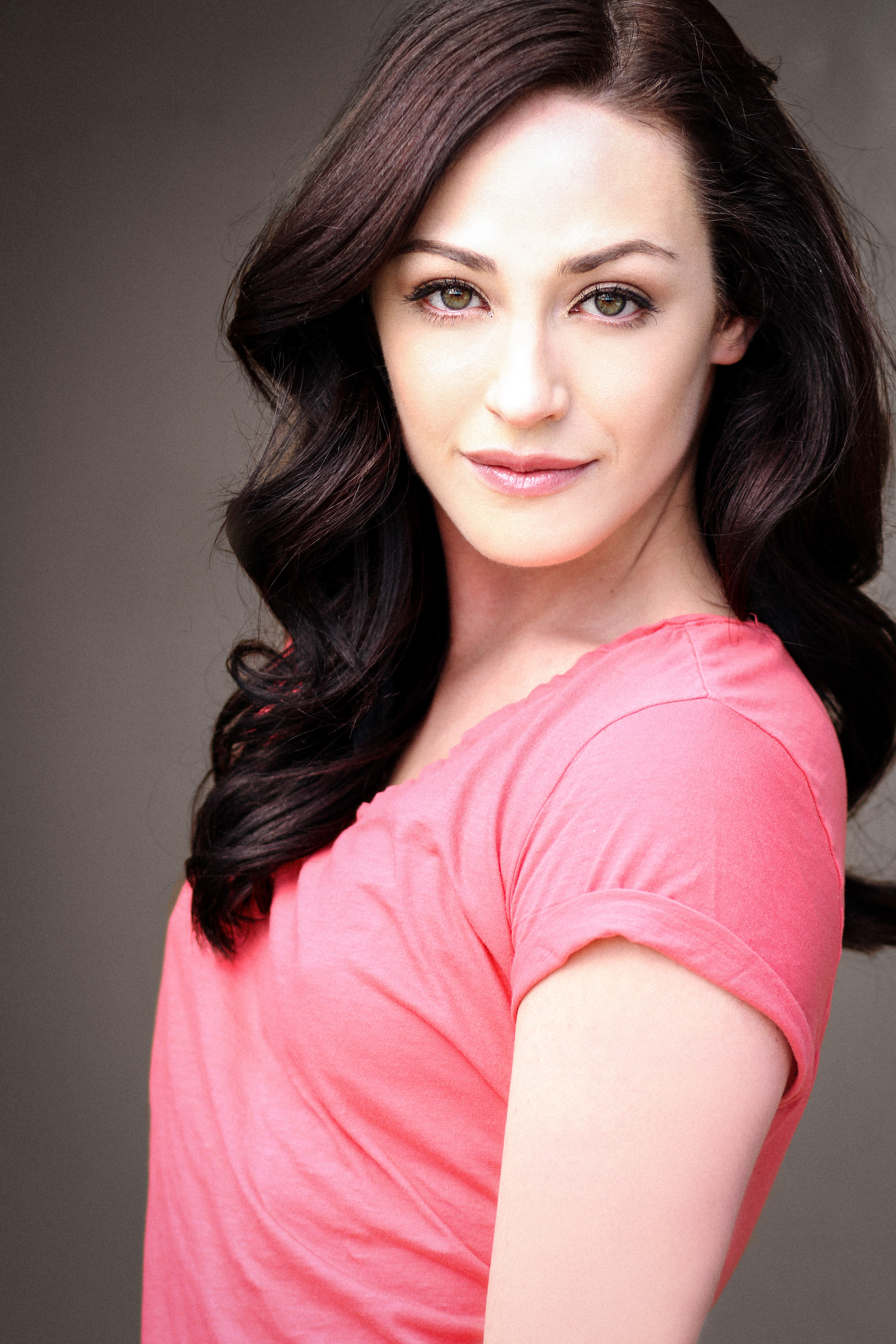 Haylee Roderick Headshot